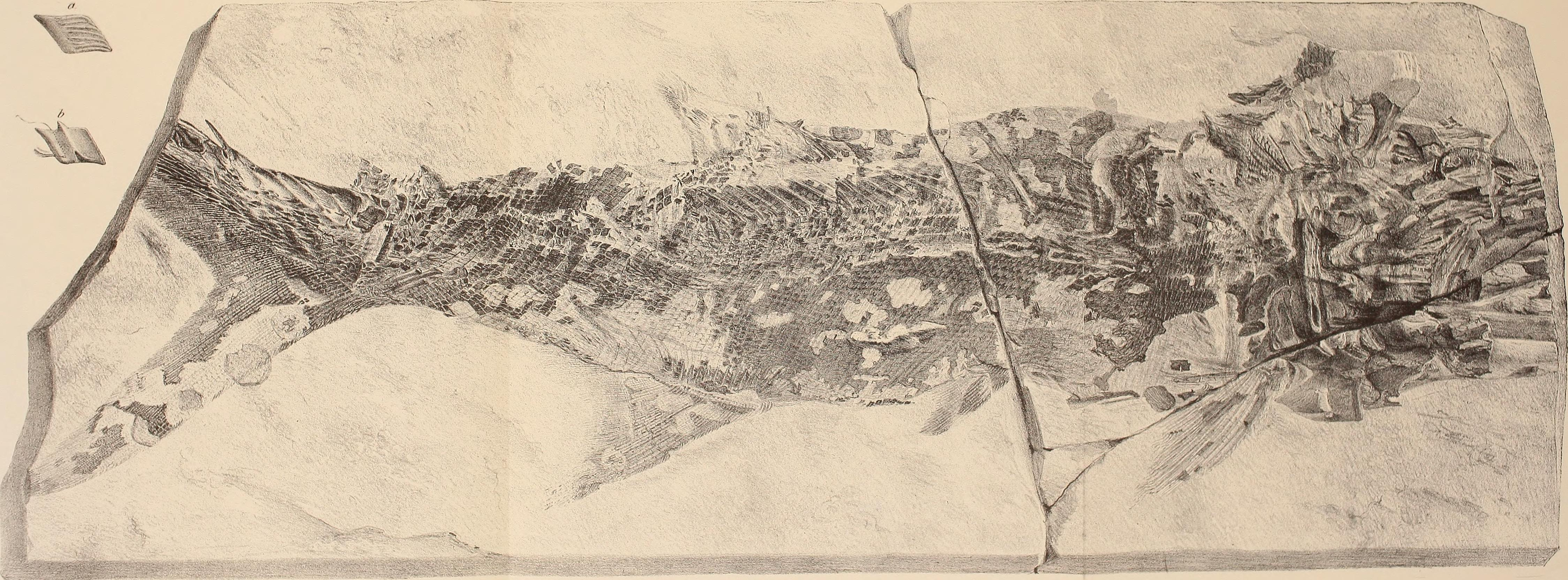 Title: Monograph of the Palaeontographical Society Year: 1847 (1840s) Authors: Palaeontographical Society (Great Britain) Subjects: Paleontology Paleontology Publisher: London : Printed for the Palaeontographical Society Text Appearing Before Image: ; ■ ■-5^^^t^^^^^:^?^!^ - // mi Text Appearing After Image: ^m^mm^ PLATE XXIV. O 1. Pygopterus latus, Egerinv. a. Scale magnified. Marl-slate, Ferry Hill. Cabinet of Sir Philip de Malpas Grey Egerton, Bart., M.P. n. ixTv ■awtn.^i^j^» 1171 i.i; U,^^^)^^ -^ ■ ■?%Hsr